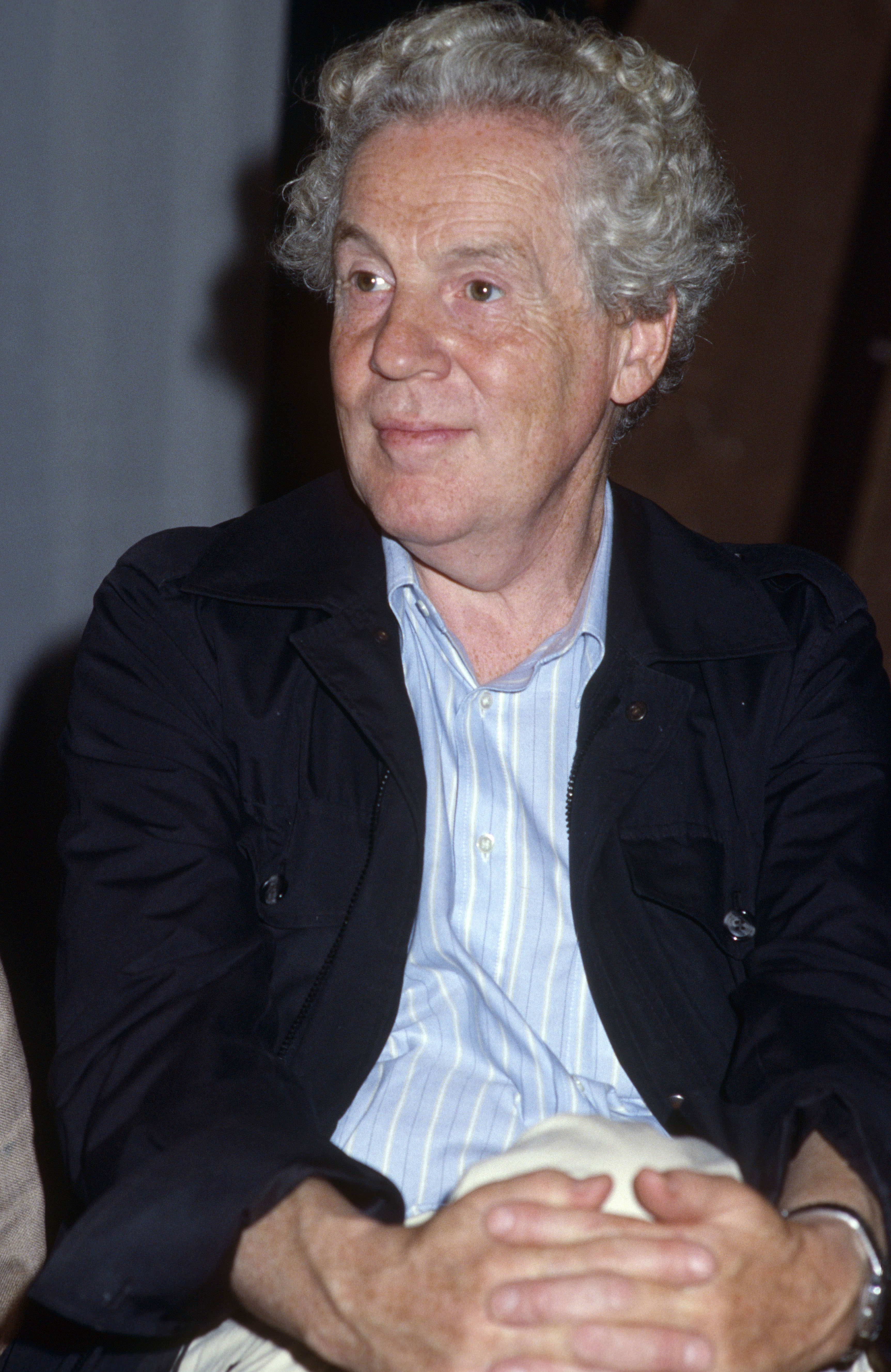 erland josephson